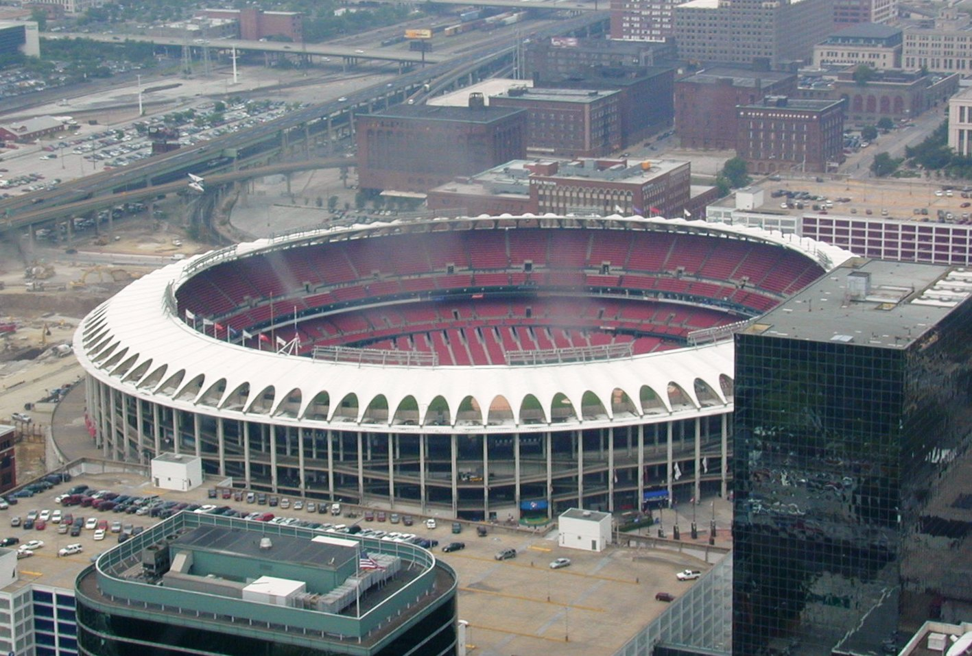 St. Louis: Busch Stadium - Home of The Cardinals Jan Kronsell, July 2004